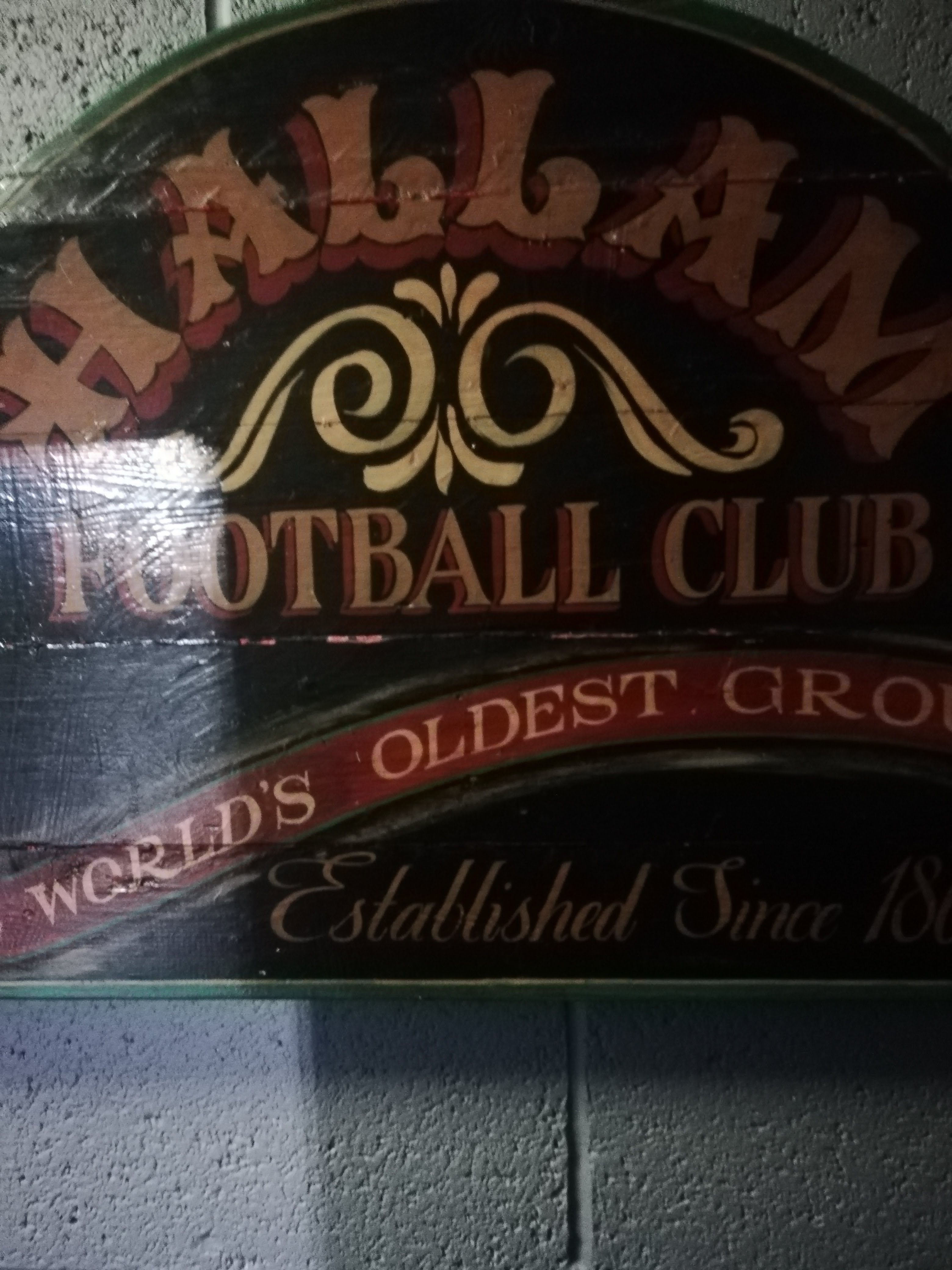 Hallam